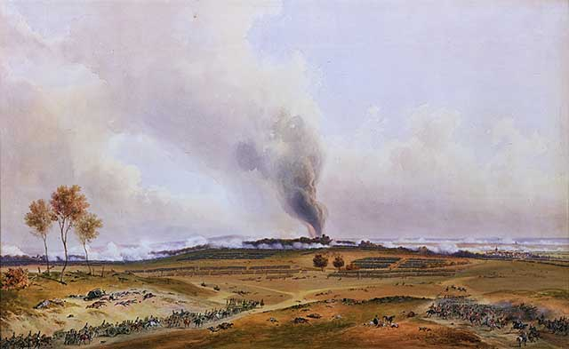 Battle of Iena, 14th October 1806.